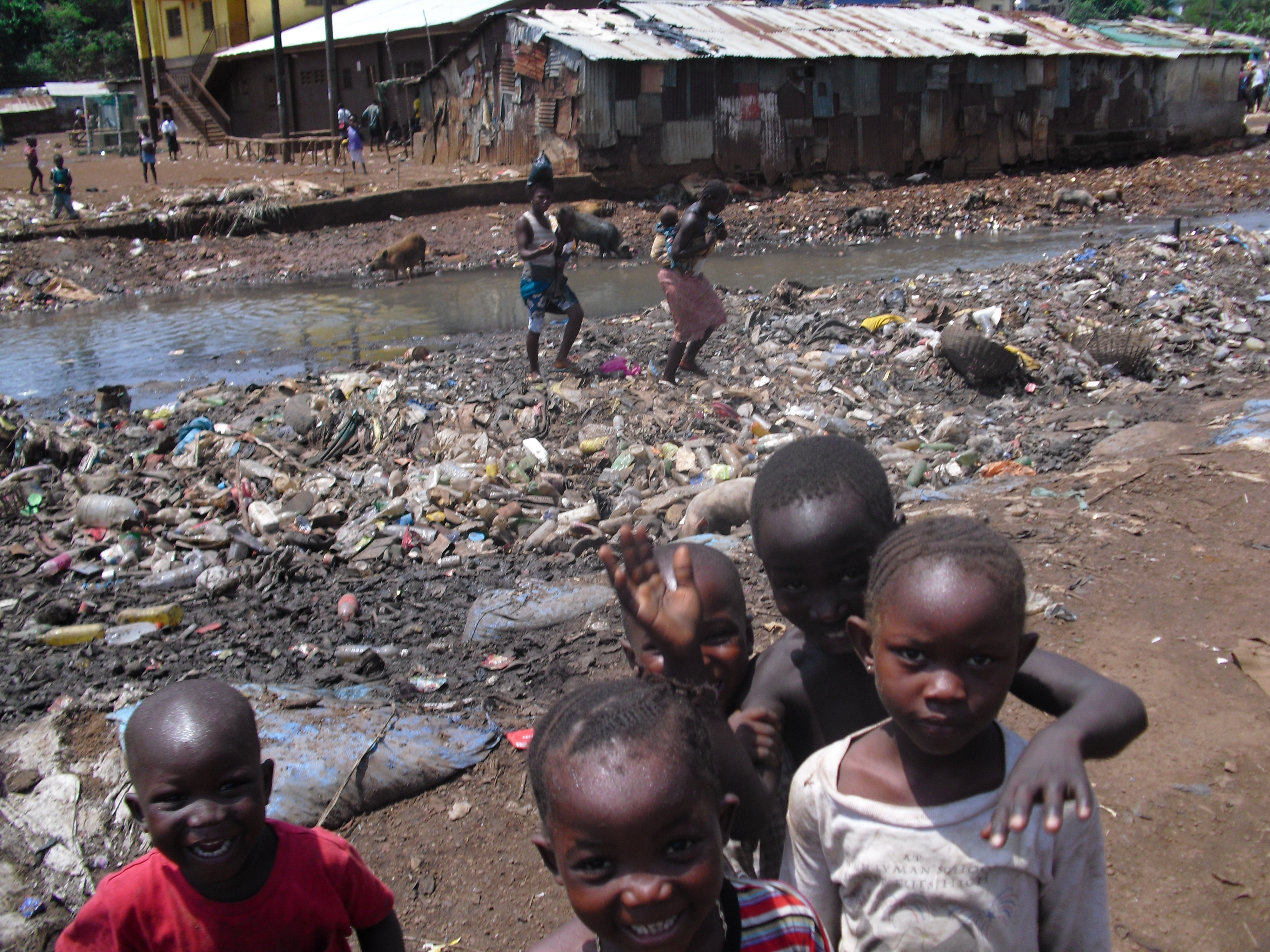 kids at dump in Seirra Leone